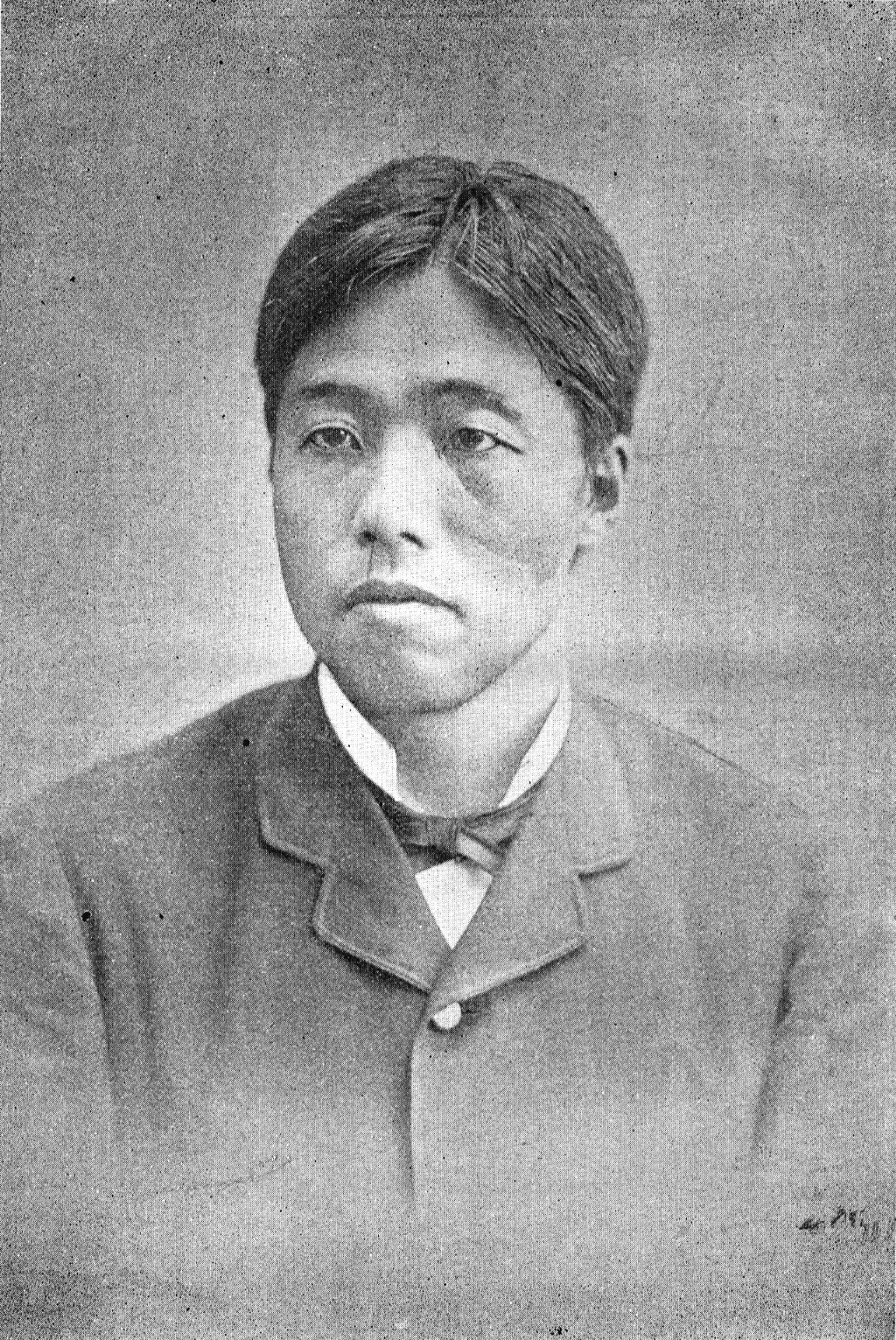 The late Baron Shirane Sen'ichi